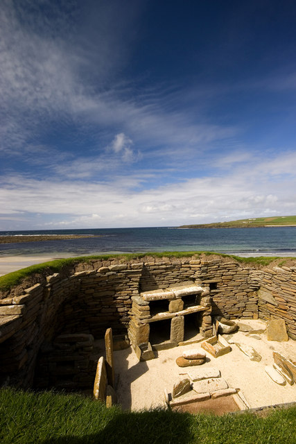 Skara Brae Home for awhile, now awe inspiring for us all.